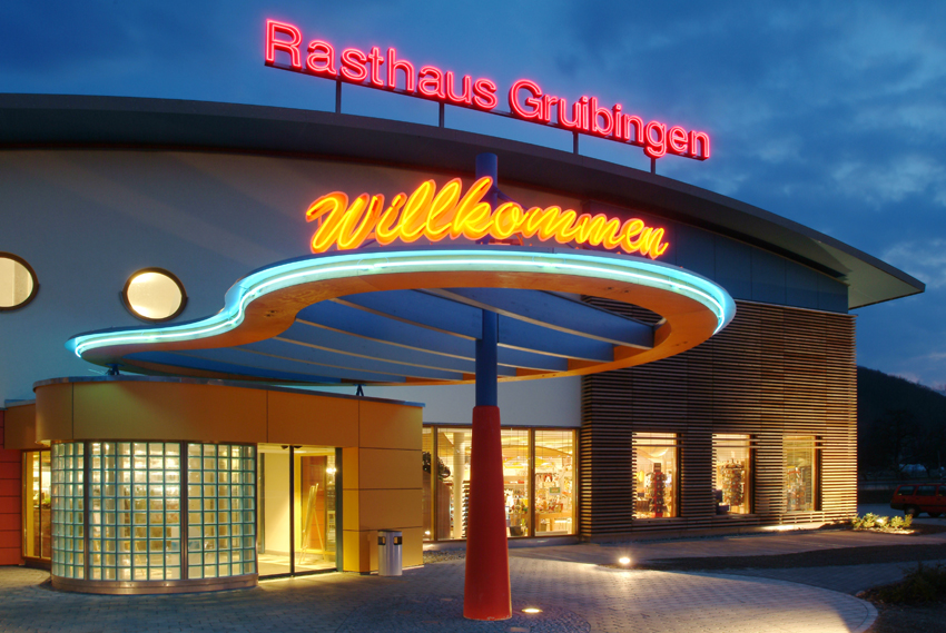 Picture of a typical Tank & Rast service station in Germany